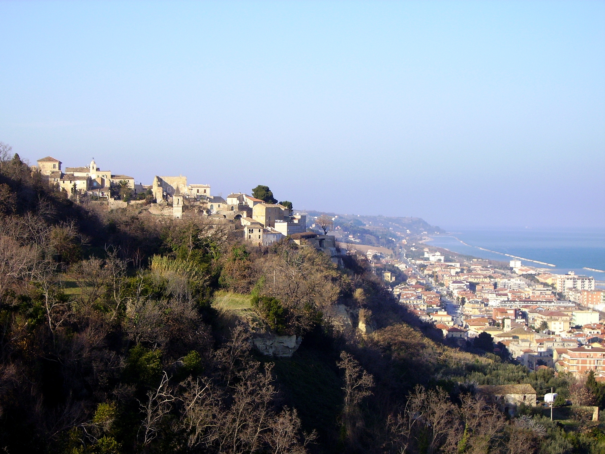 Marano, Cupra Marittima, Italy